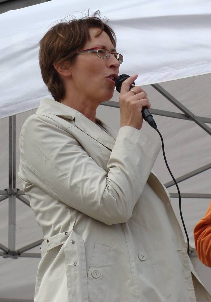 Race walker and politician (Christian Democrats) Sari Essayah in Helsinki